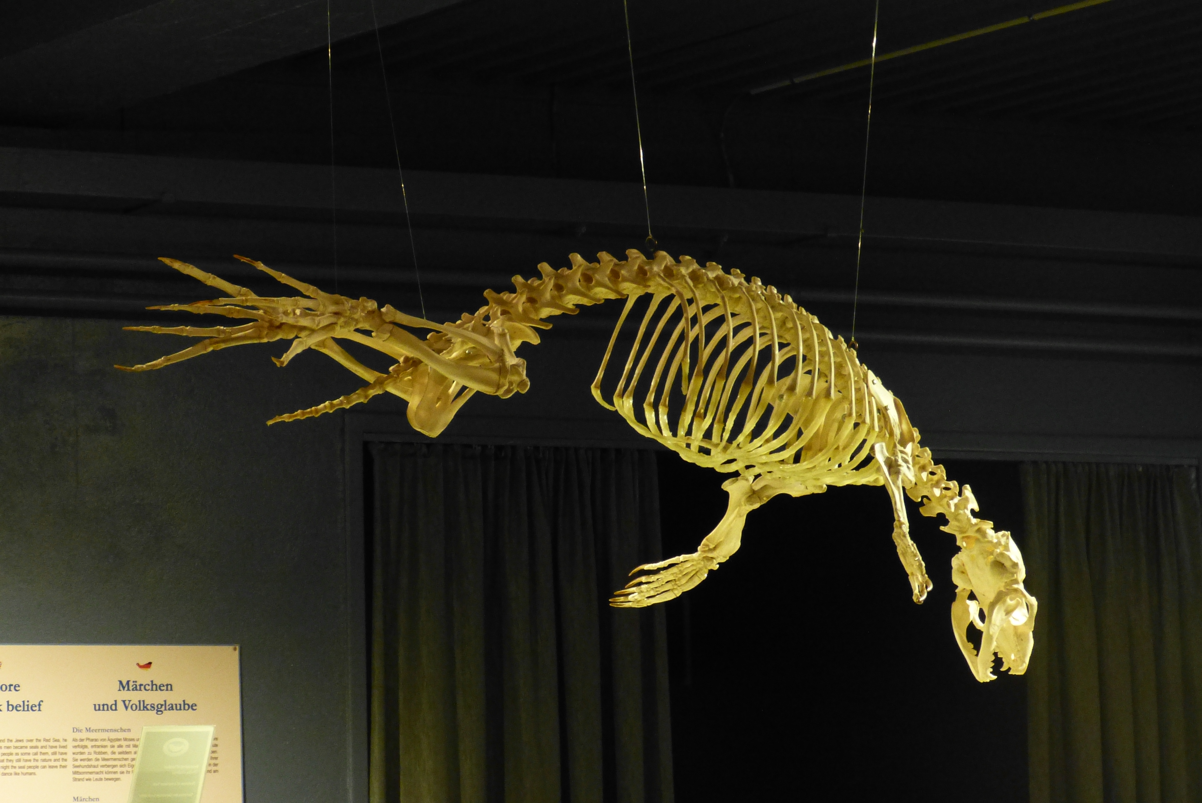 Skeleton of a Seal (Phoca vitulina), photo taken in the Seal Museum on Iceland.